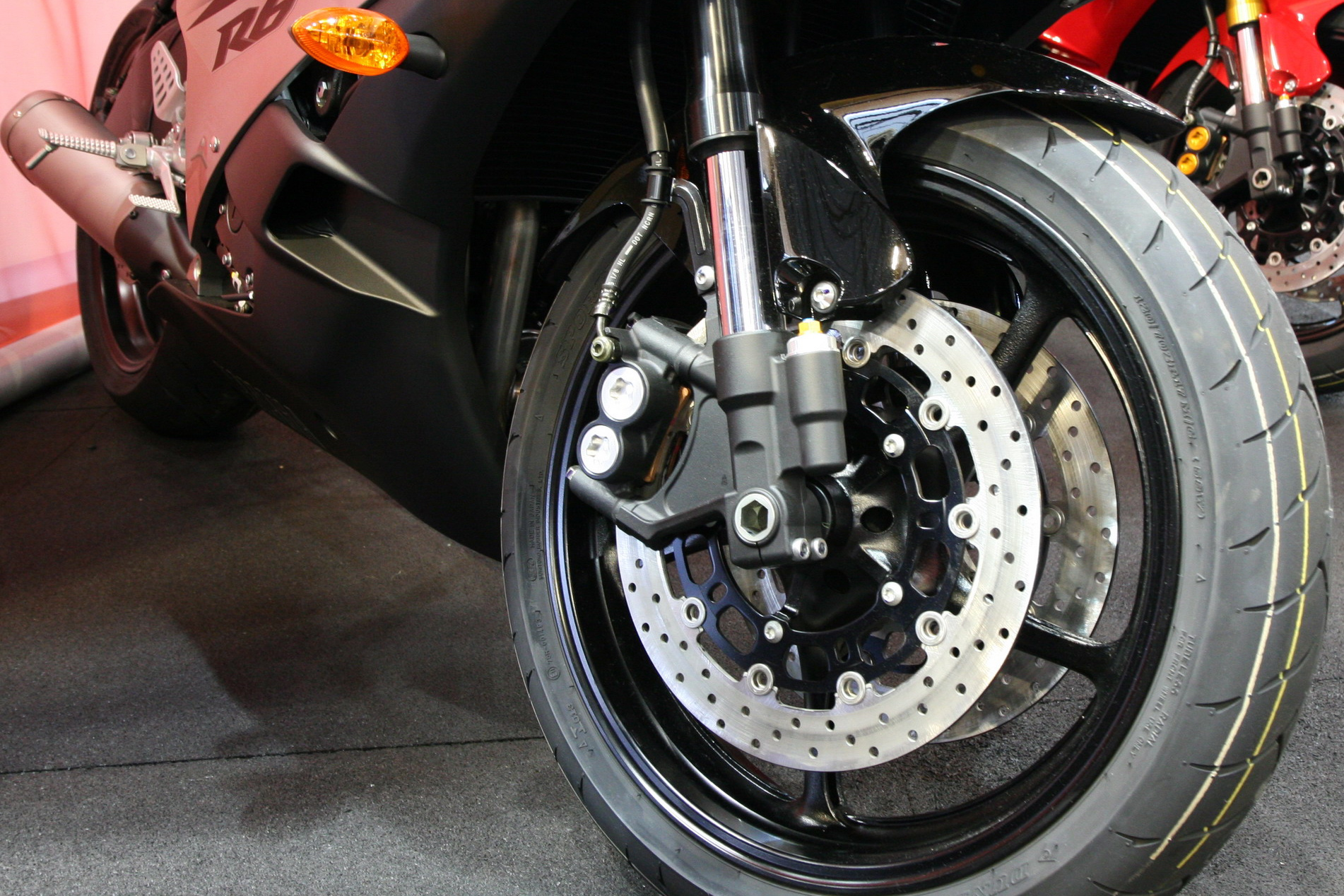 2007 Yamaha R6 detailed view of front brake calipers